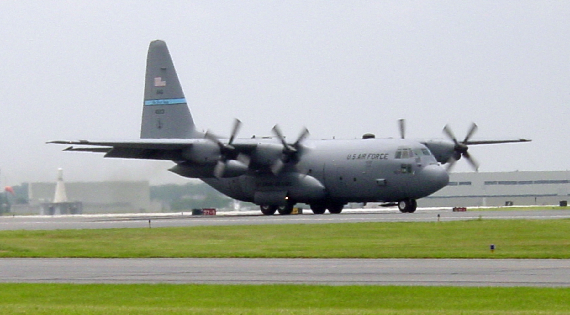 A U.S. Air Force Lockheed C-130H-LM Hercules (s/n 84-0213) from the 142nd Airlift Squadron, 166th Airlift Wing, Delaware Air National Guard moments after landing on 5 June 2008 at New Castle Air National Guard Base, Delaware (USA). Unit aircrew flew the aircraft past the 10,000 flying hour milestone, the first C-130H aircraft in the unit's inventory to reach this mark. The fleet of C-130H aircraft arrived factory-fresh in the mid-1980s to New Castle ANGB.